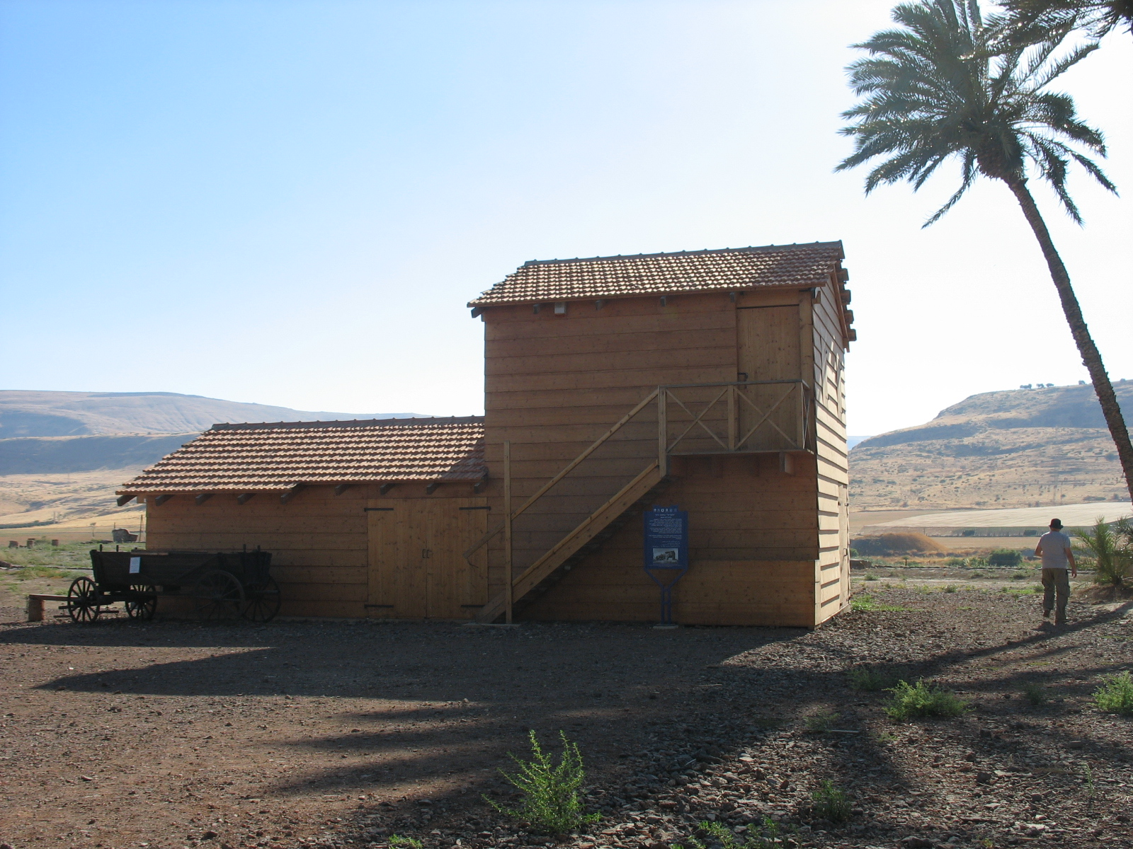 Reconstruction of the Um Juni shack made by the Society for Preservation of Israel Heritage Sites